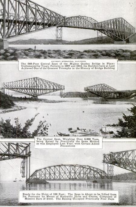 Photographs of the lifting of the center span of the Quebec Bridge in place, 1919, considered to be a major engineering achievement for the day.